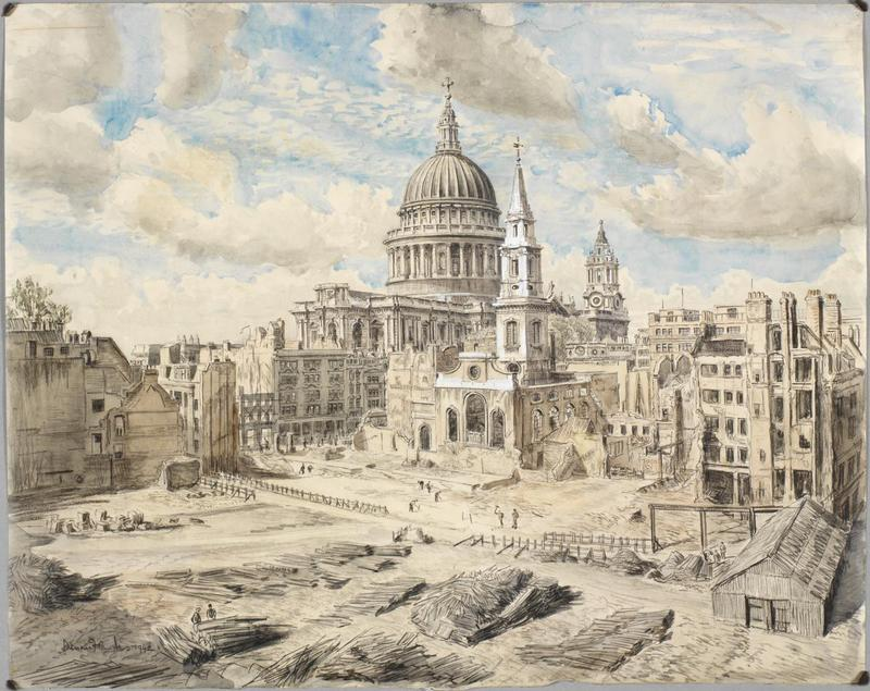 A view of St Paul's Cathedral, ringed by bomb damaged houses. Foreground is an empty area which gas been cleared of rubble. Men are working in the area and piles of scrap are evident.